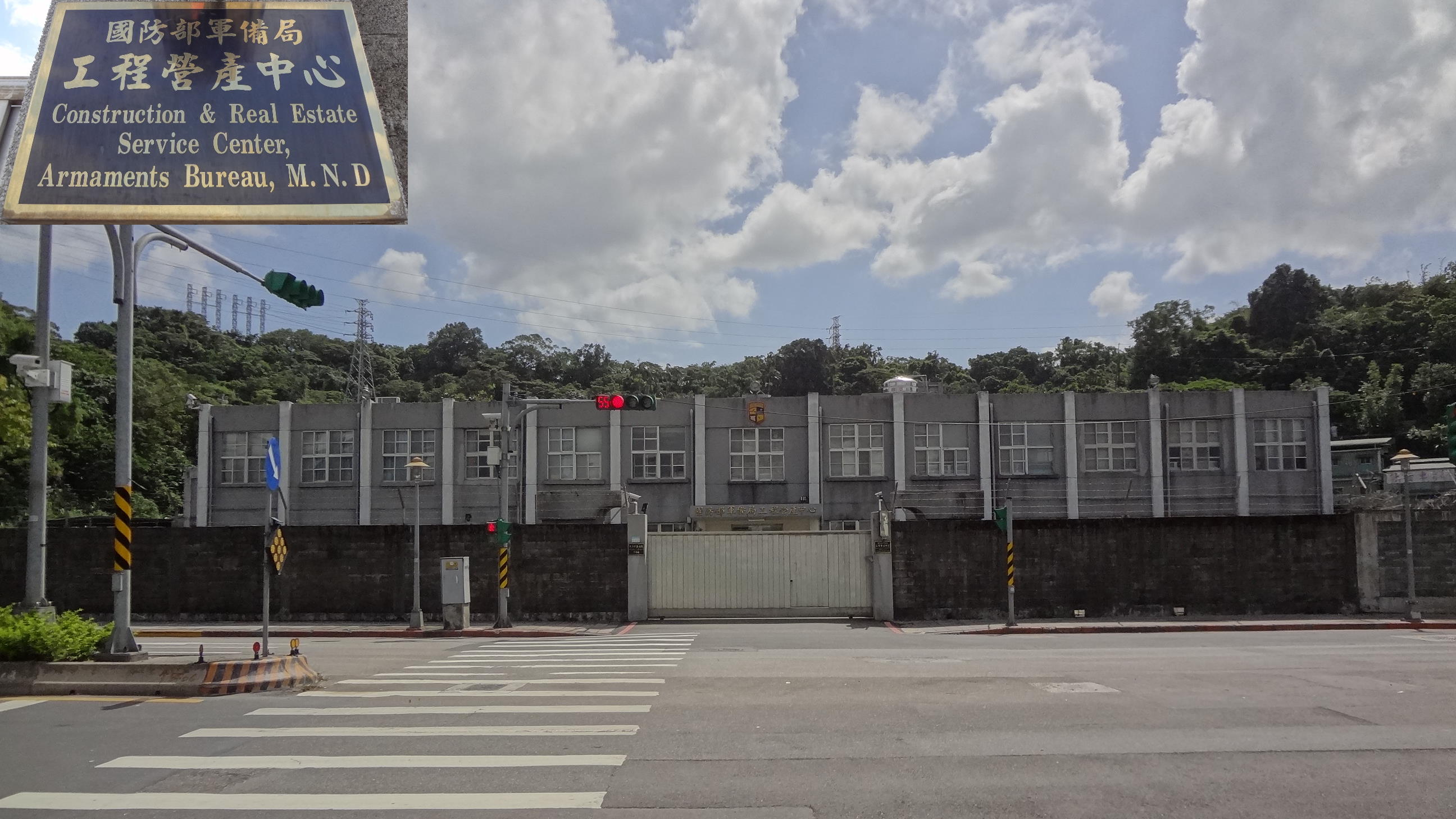 Construction and Real Estate Service Center, Armaments Bureau, Ministry of National Defense